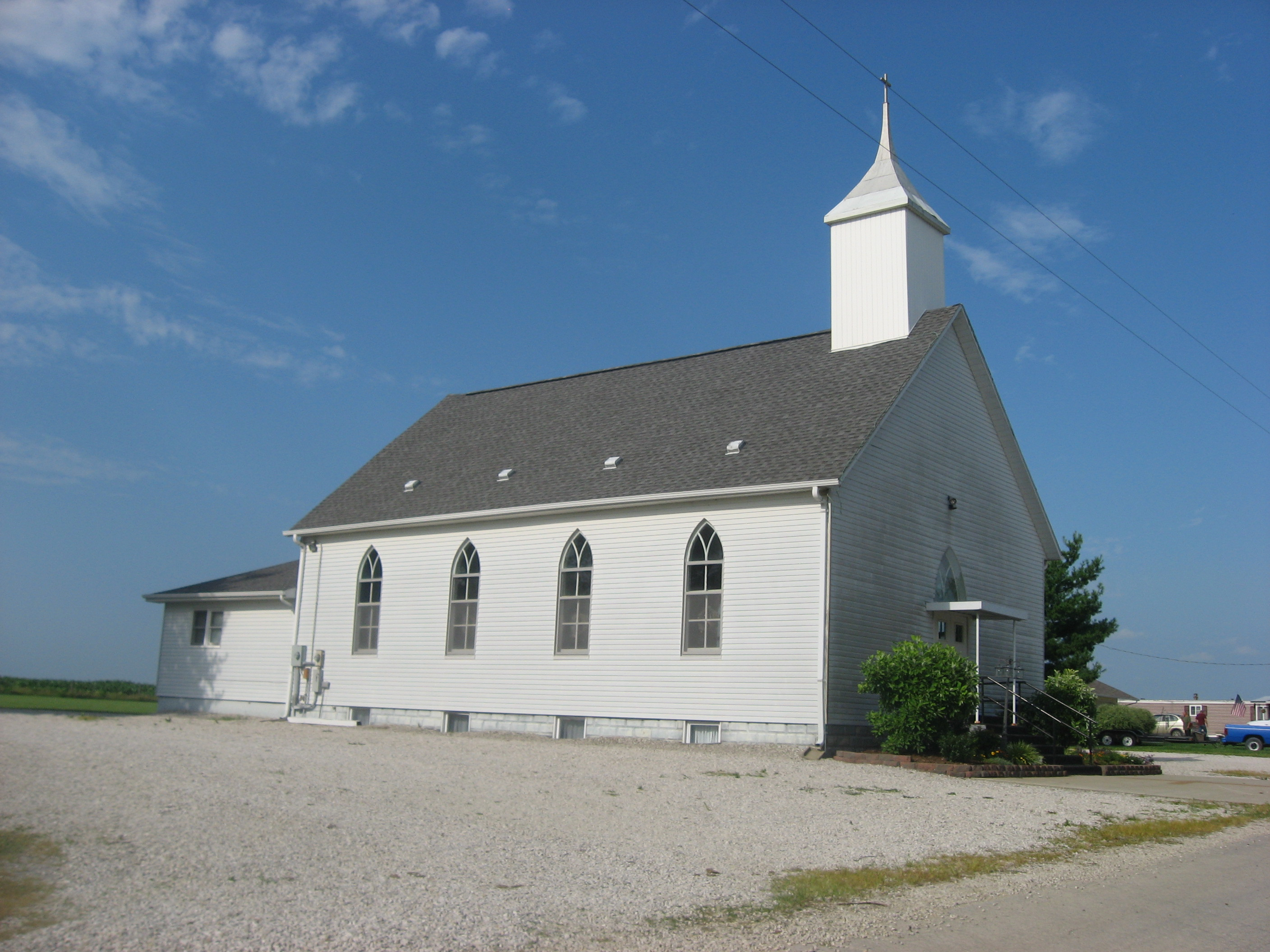 Front and western side of the Cornettsville United Methodist Church, located at 3074 E700N at Cornettsville in Bogard Township, Daviess County, Indiana, United States.